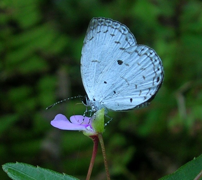 Unidentified Lycaenid butterfly from Bhagamandala, probably Neopithecops zalmora, the Quaker